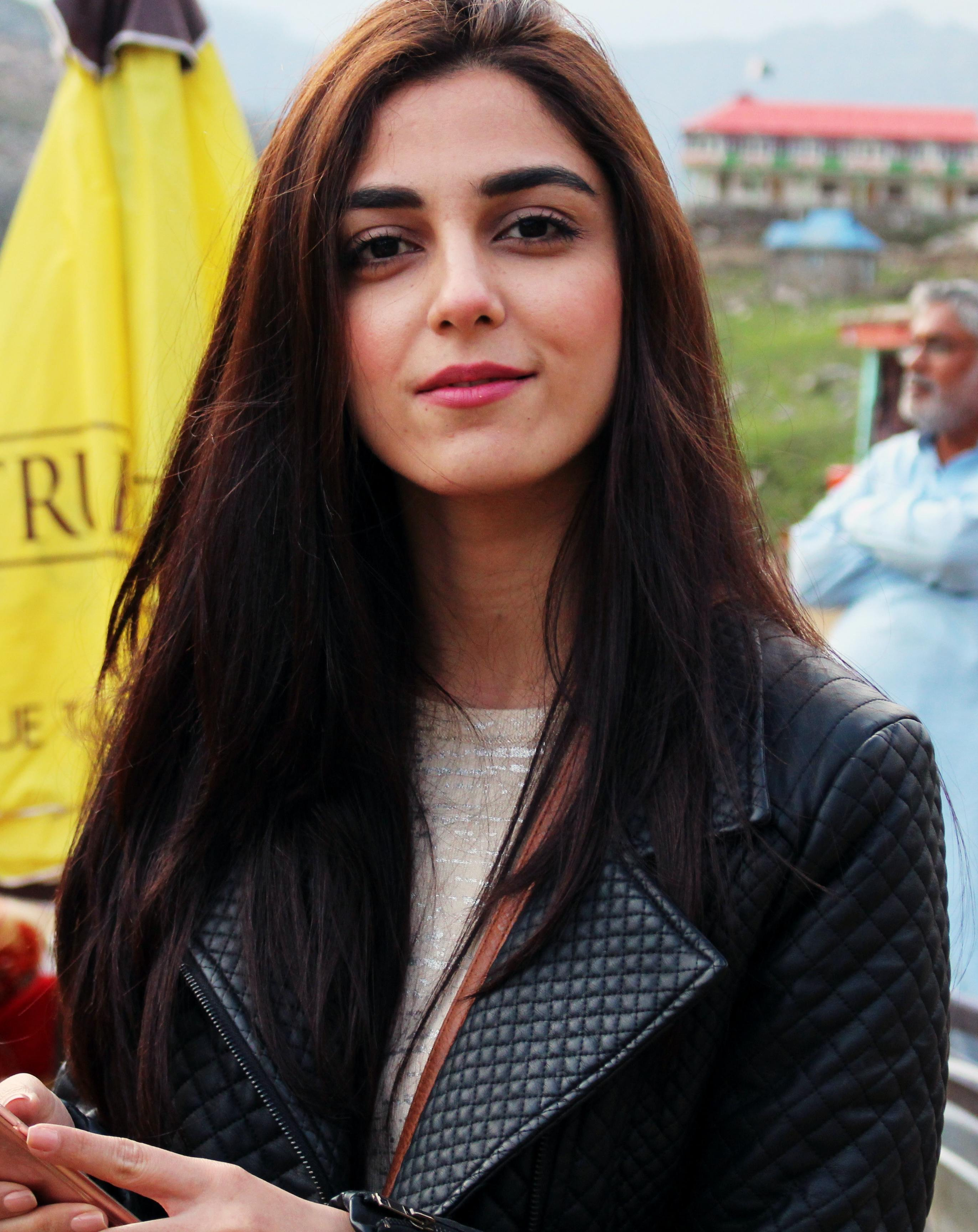 Pakistani Actress Maya Ali at Saif-ul-Maluk in 2016